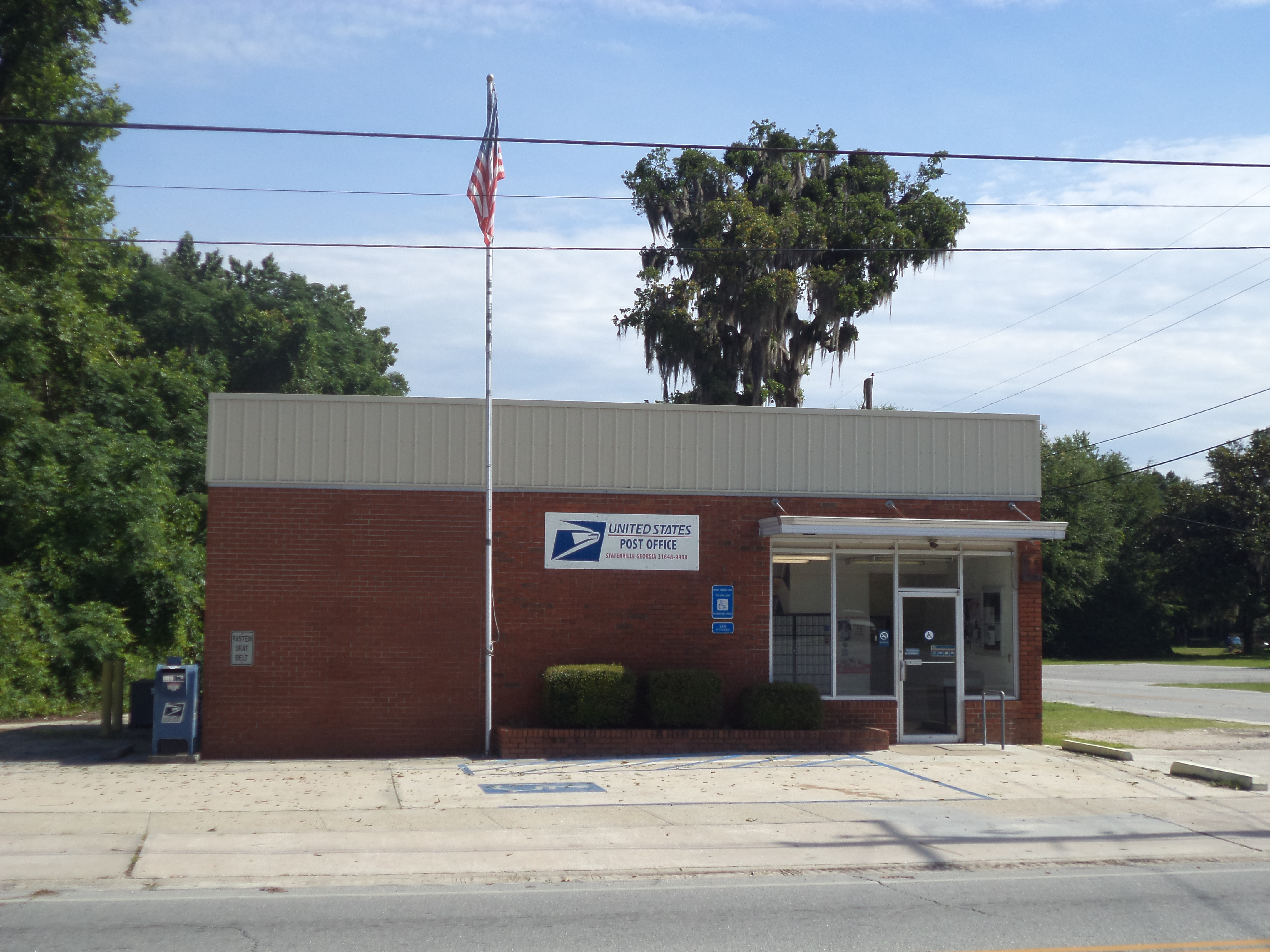 tatenville Post Office, 113 Georgia 94, Statenville, Echols County, Georgia